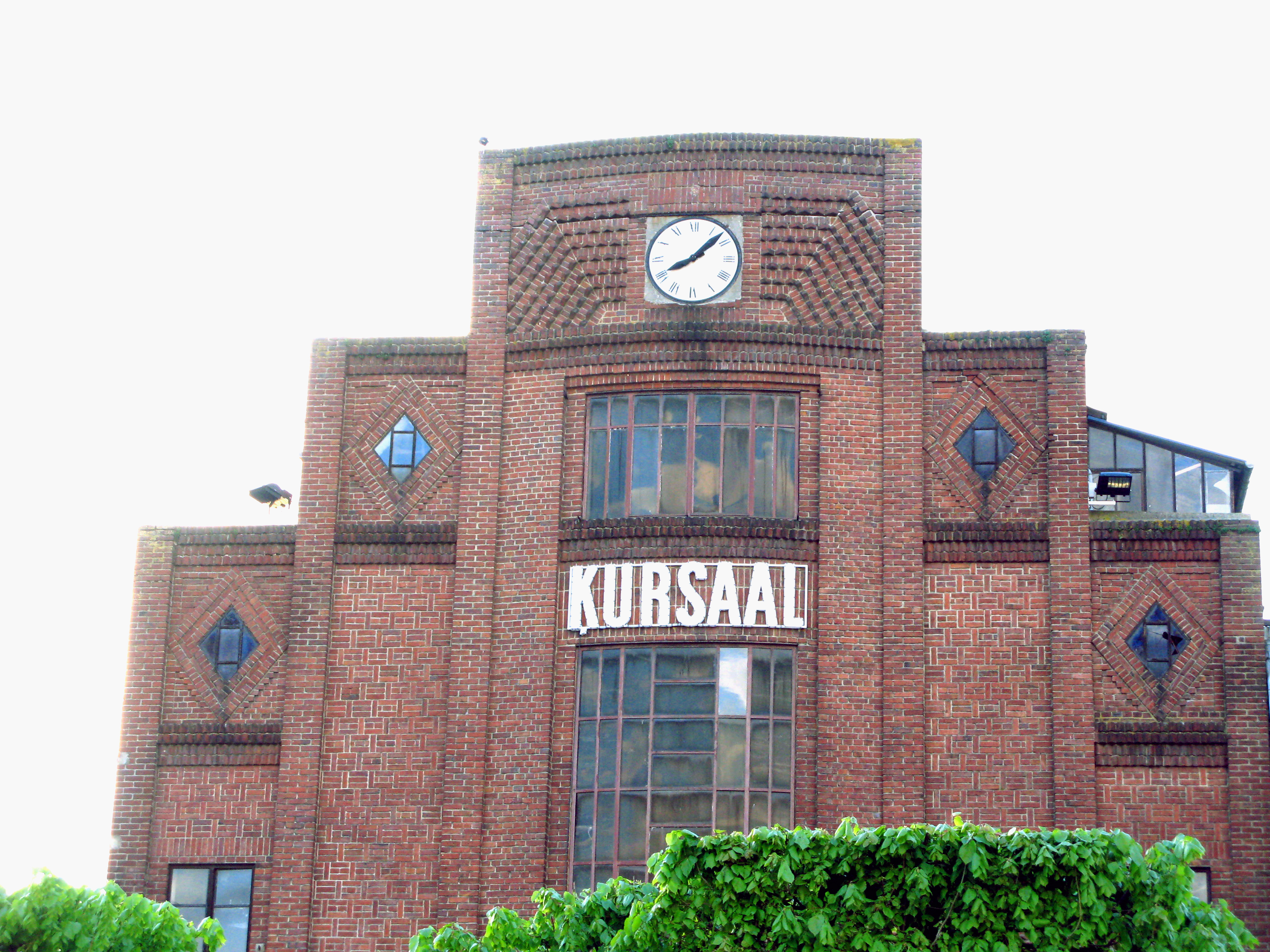 Gournay-en-Bray (Seine-Maritime, France) - . . .